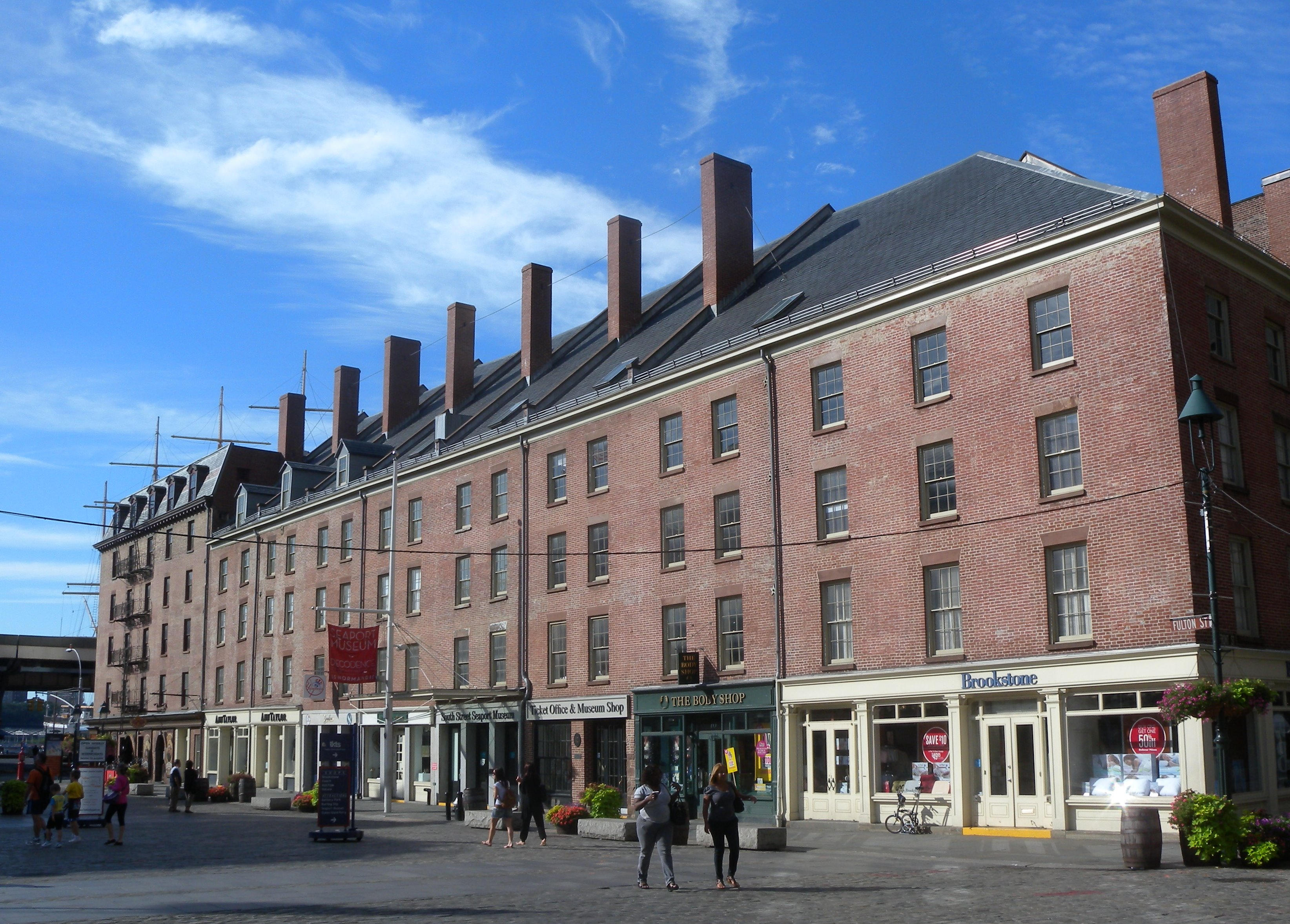 Looking south at Schermerhorne Row on a sunny morning.